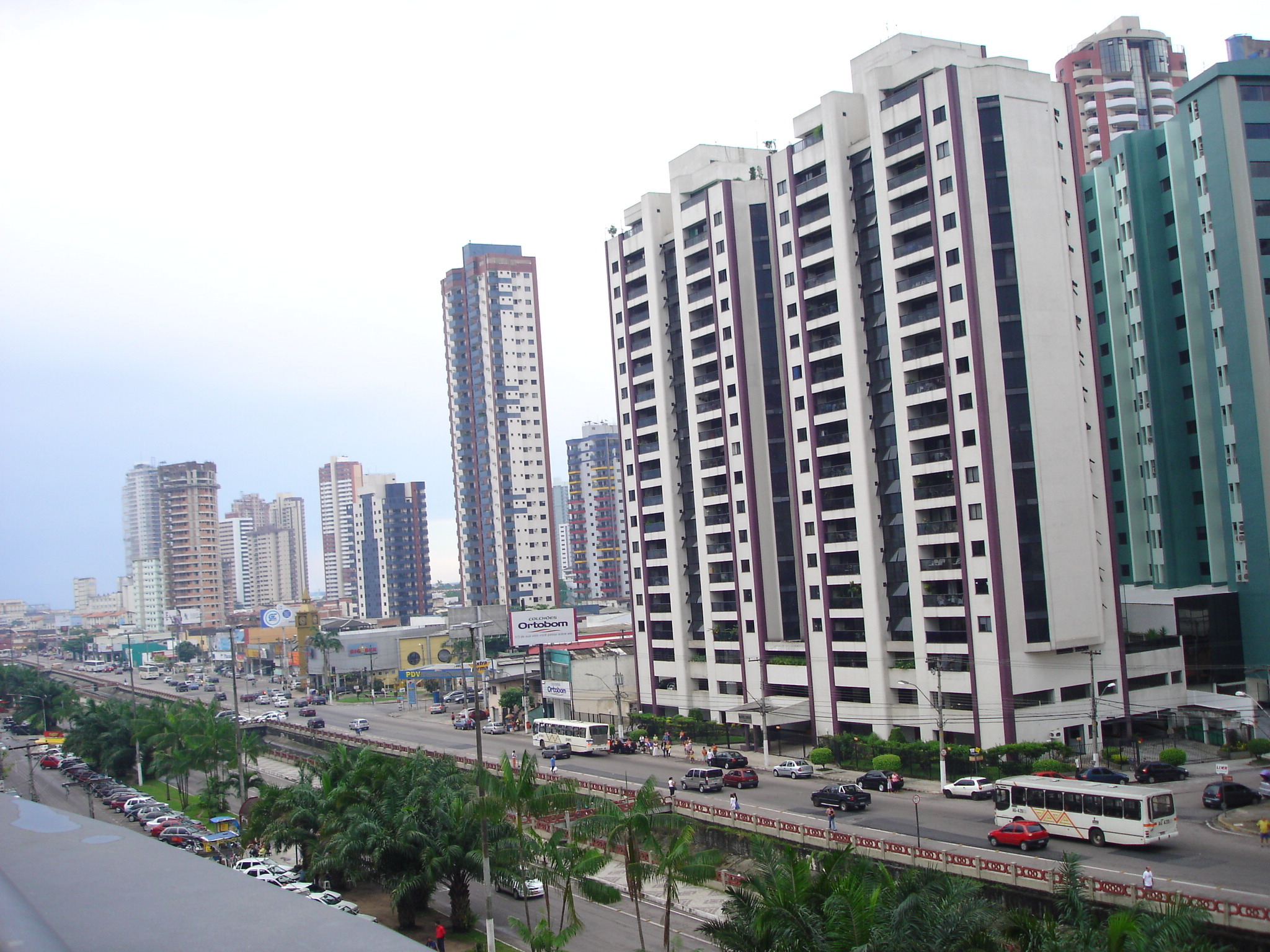 Photography of Belém city, Pará, Brazil. own work